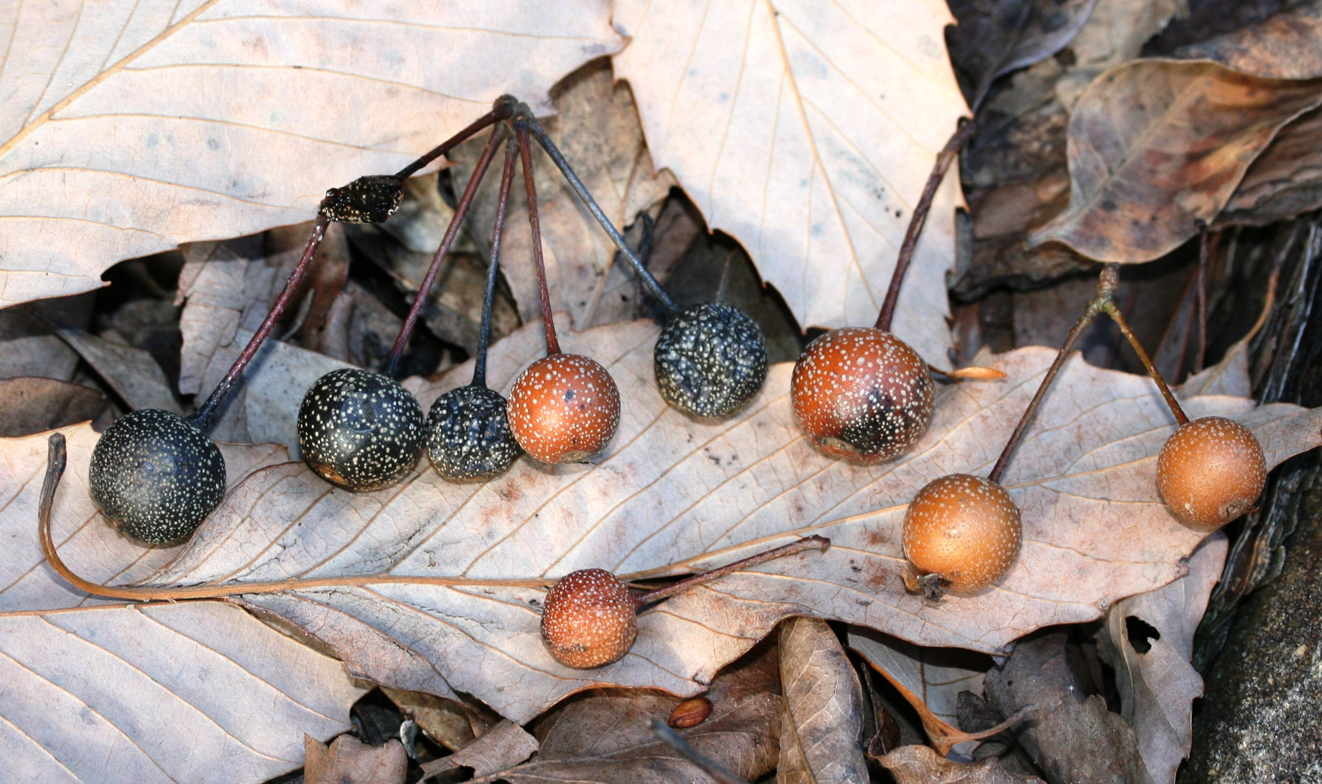 Callery pear (Pyrus calleryana Decne.) fell fruits in Mount Tado, Yōrō Mountains, Kuwana, Mie, Japan.